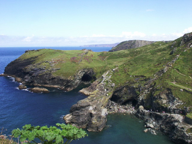 Merlin's Cave, Tintagel. According to legend, this is Merlin's Cave (the one on the right I believe).